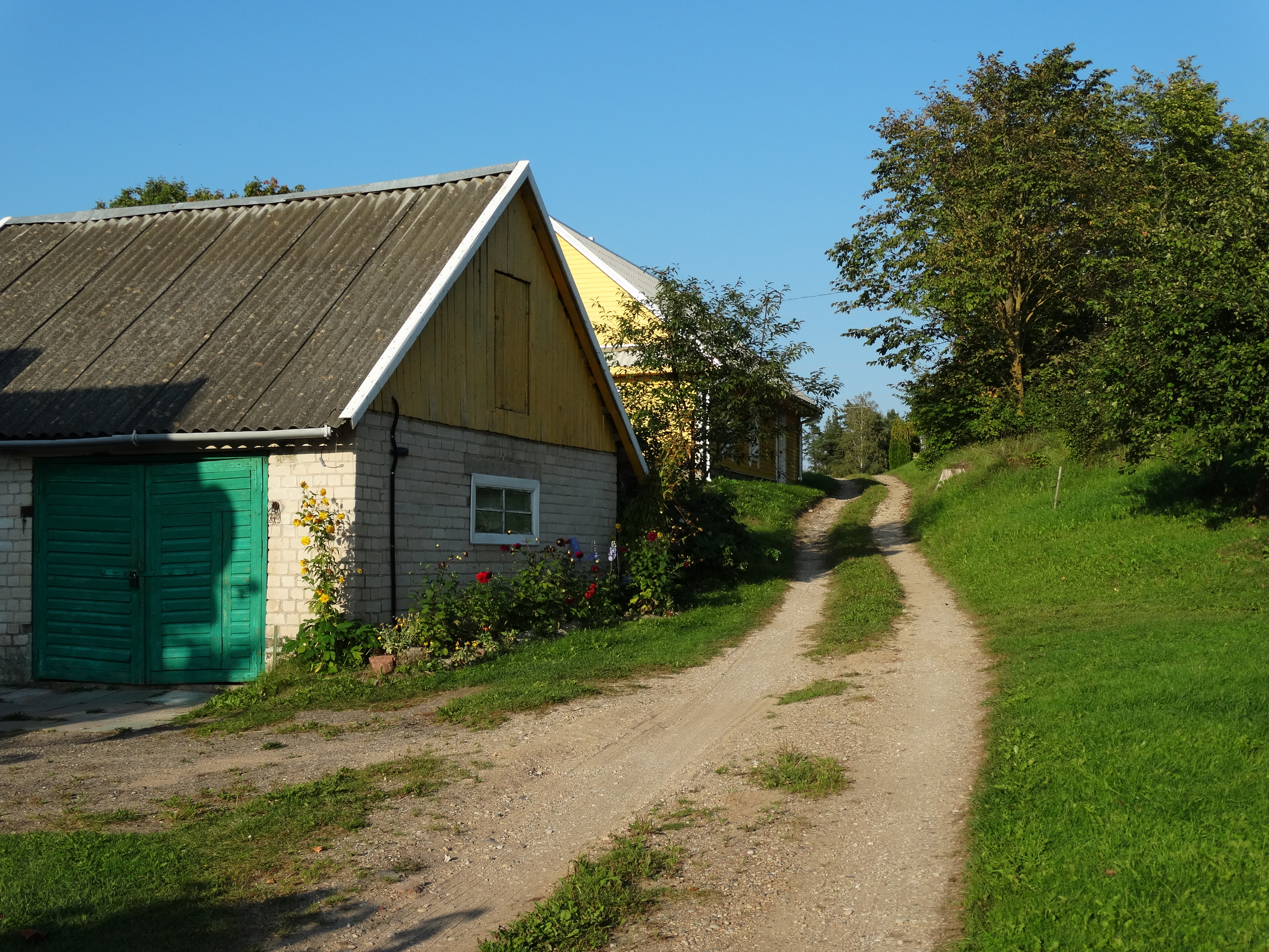 Minauka, Zarasai district, Lithuania